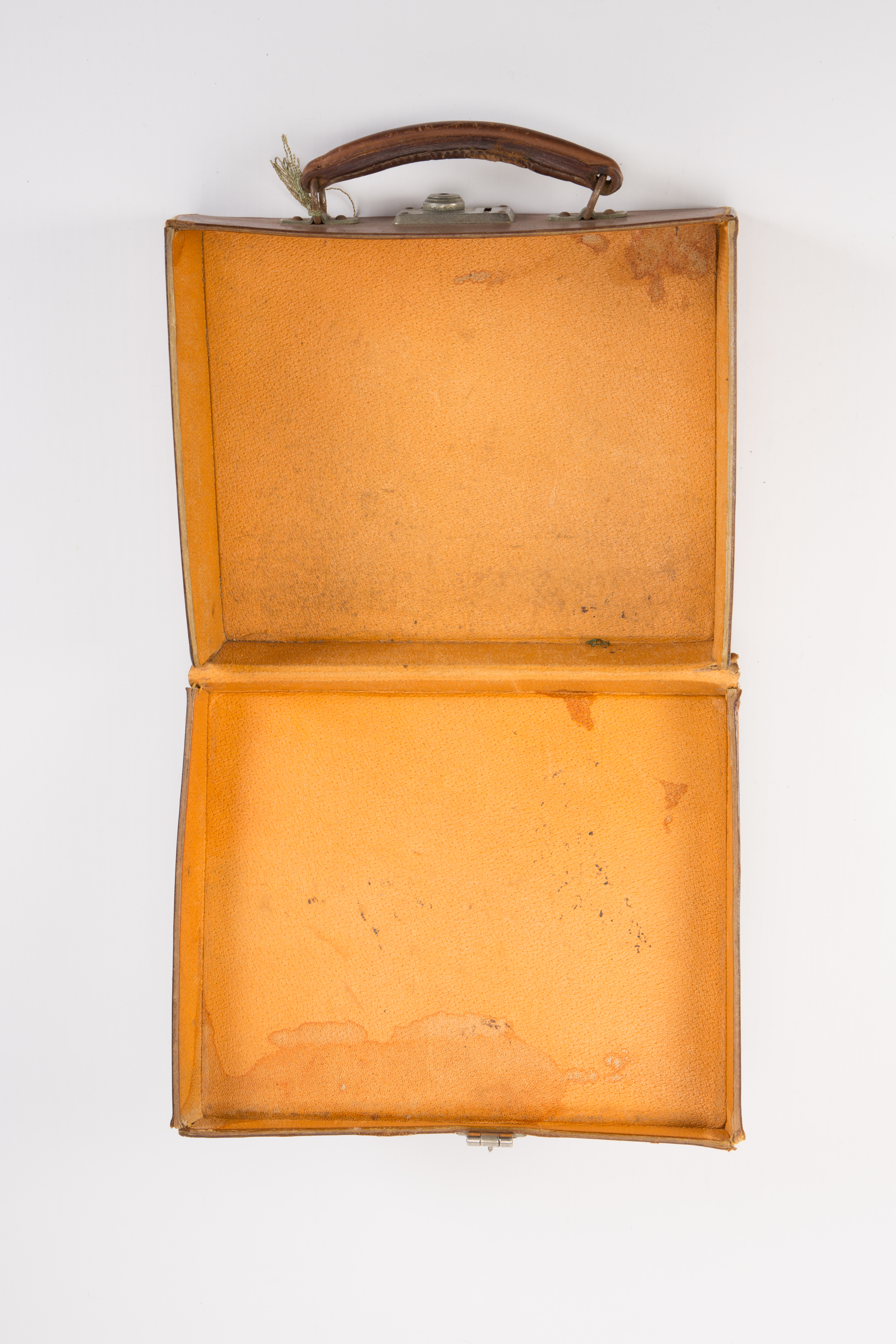 Tan leather suitcase (small) that belonged to 22-267 Staff Nurse Lucy M Trumble, NZANS, WW1 small rectangular tan leather suitcase; lined with yellow textured paper adhered to cardboard reinforcing; stamped on top of lid at centre- L.M. TRUMBLE- N.Z.A.N.S; stitched leather; single lockable metal latch at front (no key); no hinges; thick leather handle attached to case by metal D-rings; piece of frayed green silk cord tied to handle; stamped on lock- 28543043 - GRADE MARK